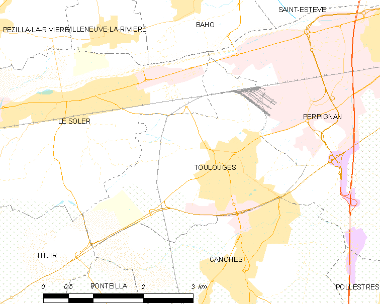 Map of French municipality